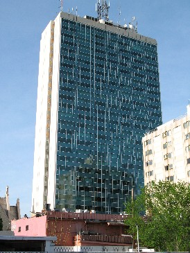 I took this myself in May 2007